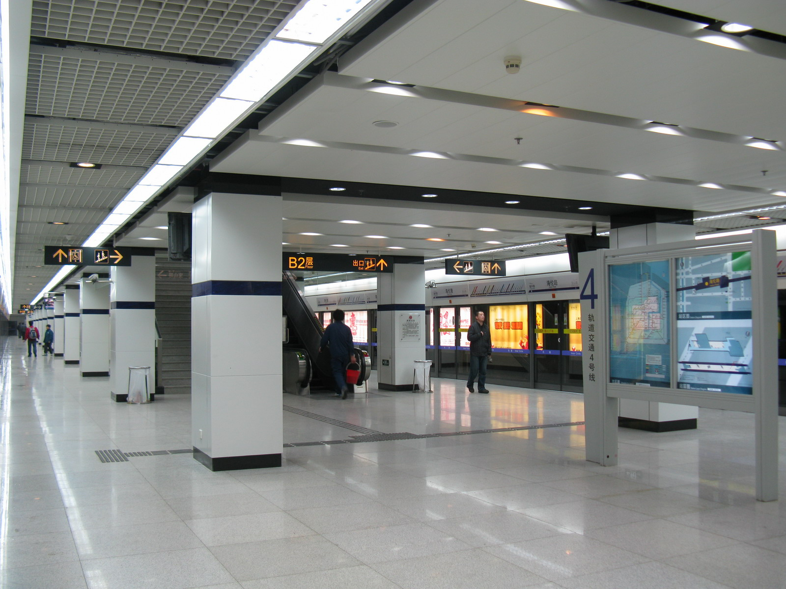 Line 4 Platform of Hailun Road Station